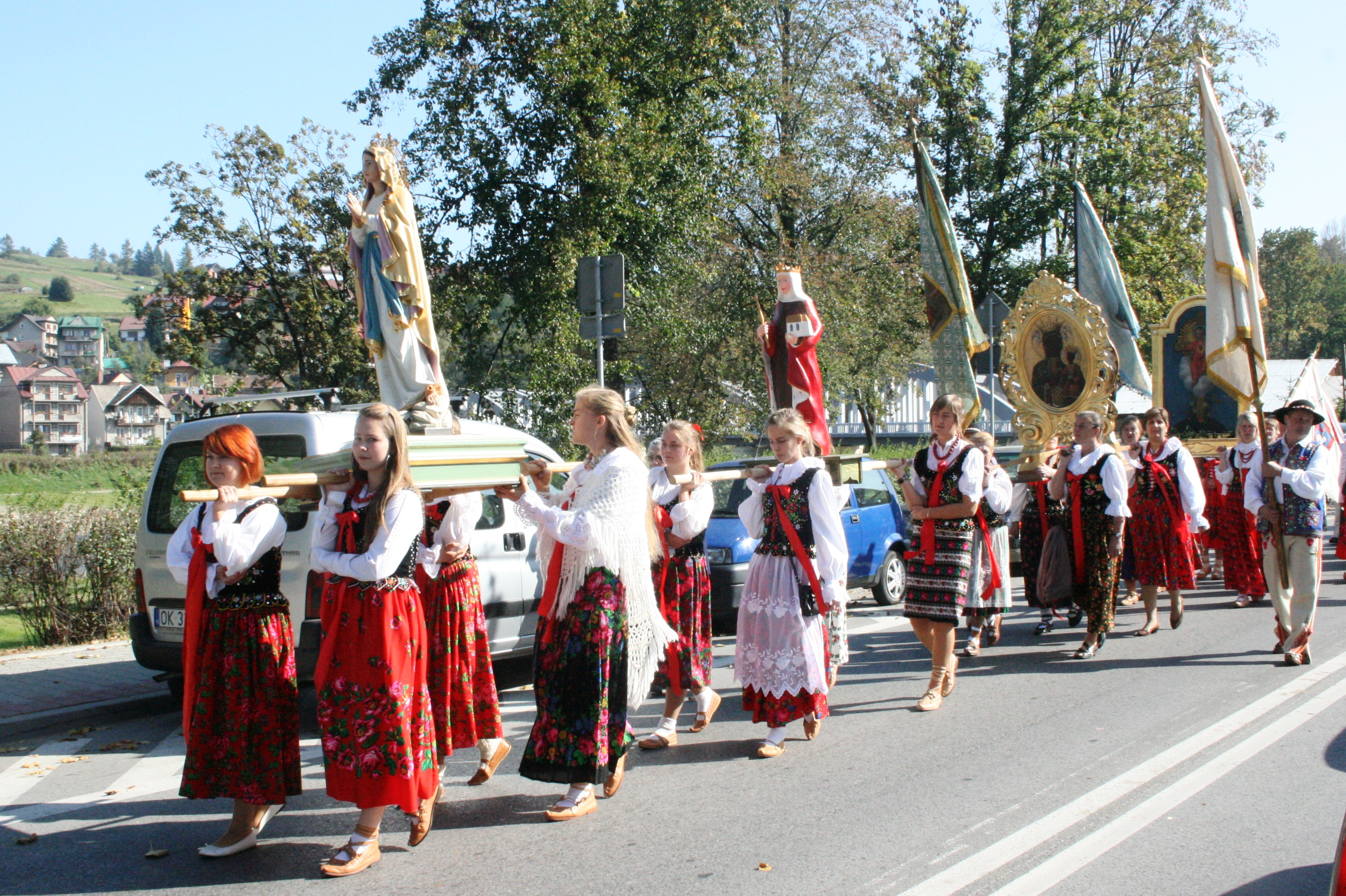 Procession in Krościenko nad Dunajcem (Poland)